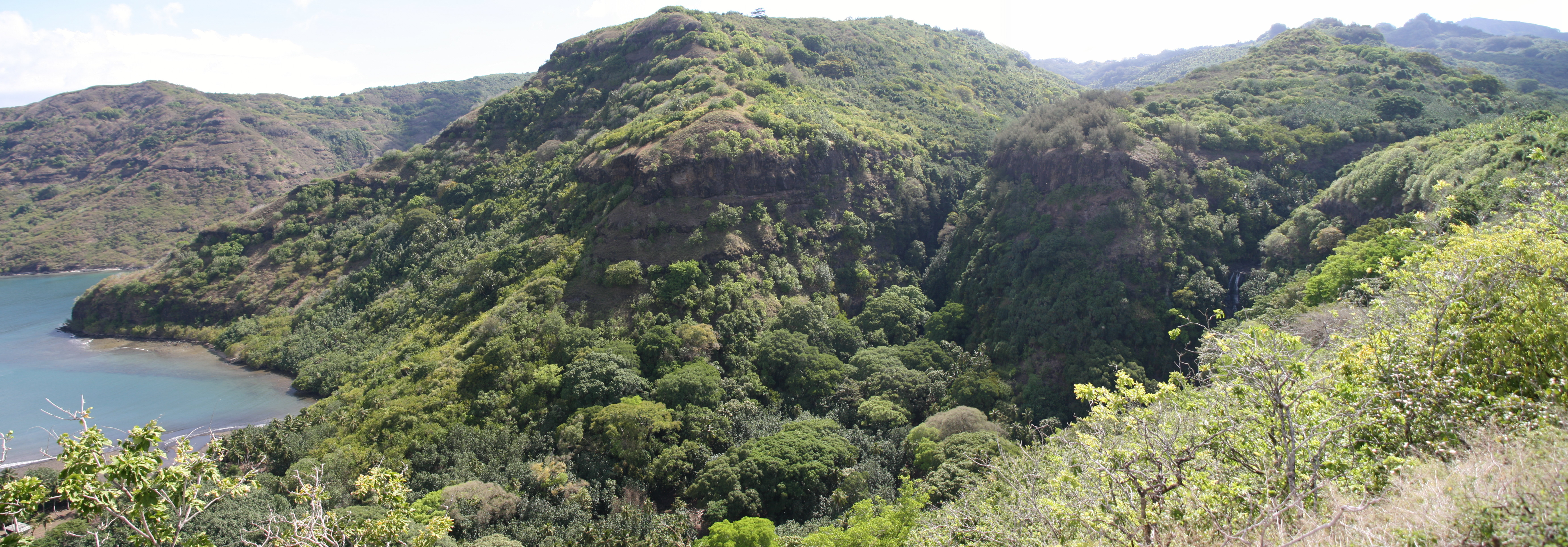 View of Hakapaa valley and bay, in Nuku-Hiva, Marquesas Island, French Polynesia.